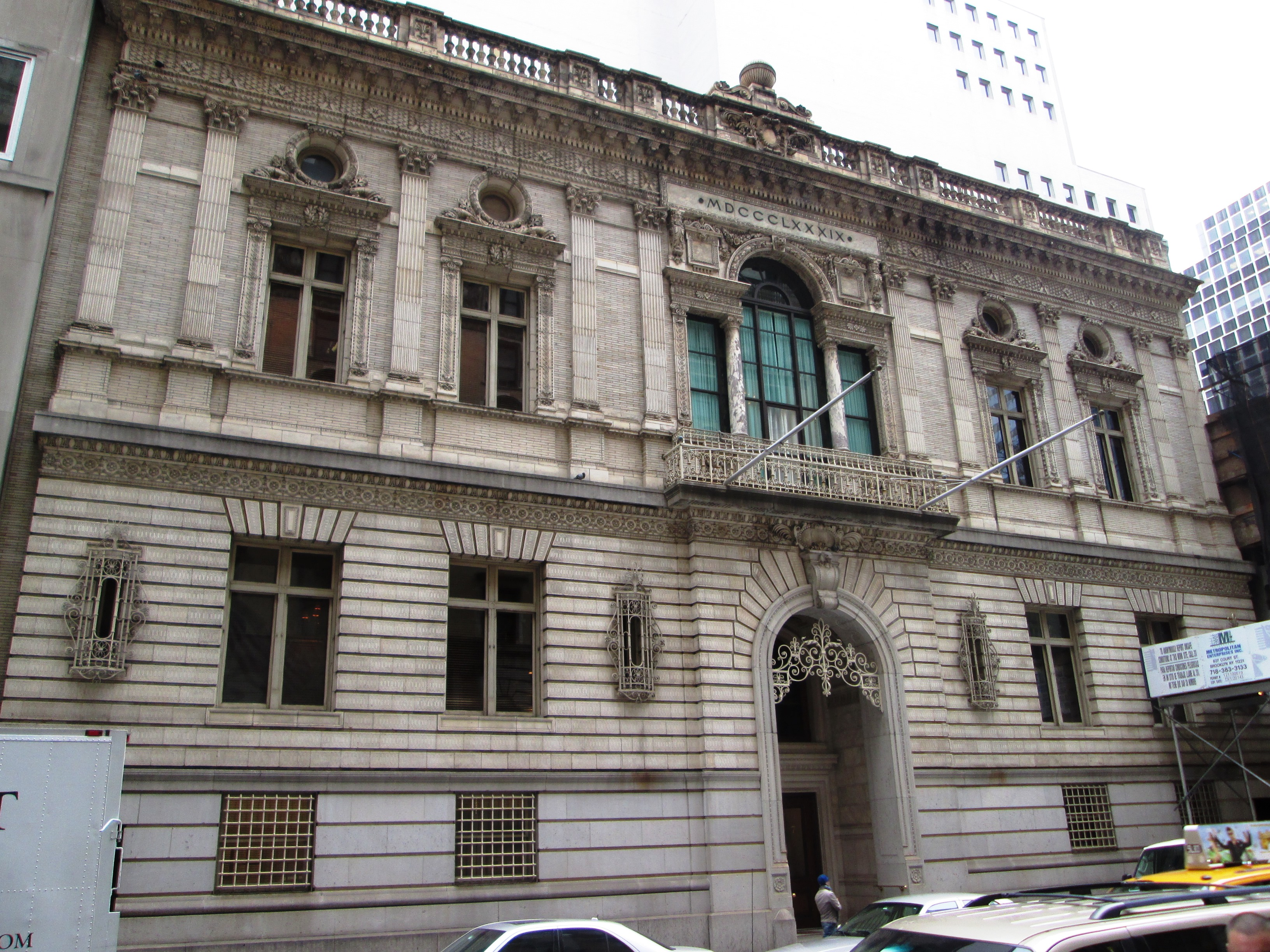 The Century Association clubhouse, at 7 West 43rd Street between Fifth and Sixth Avenues in the Midtwon Manhattan area of Manhattan, New York City, was built in 1888-91 and was designed by McKim, Mead & White in the Italian Renaissance Revival style. The club moved here from its former clubhouse on 15th Street. This building was restored in 1992 by Jan Hird Pokorny. (Source: Guide to NYC Landmarks (4th ed.))